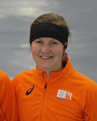 Lotte van Beek